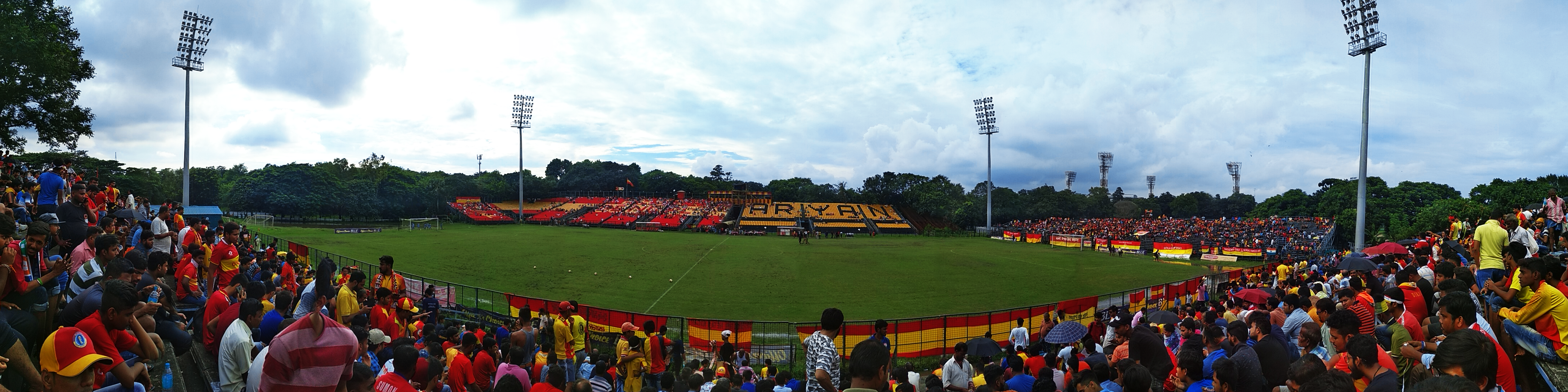 East Bengal Ground Panoroma